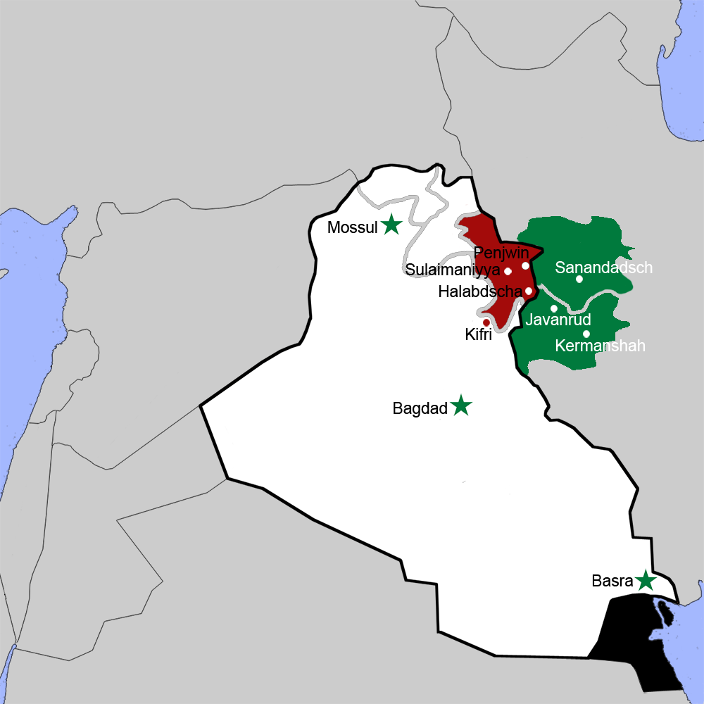 Places in Iraq and Iran where Jaf Kurds live RED/GREY LINES: Kurdish Autonomous Region in Northern Iraq since 1974/76 (composed by the governorates of Dohuk, Arbil and Sulaimaniyya) GREEN: Iranian provinces of Kordestan (with its capital Sanandaj) and Kermanshah (where Javanrud belongs to) WHITE/RED: Iraq